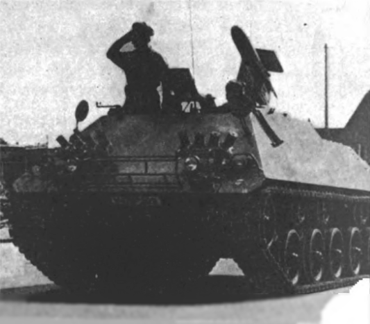 German HS30 armored carrier mounting the SS11 antitank rocket